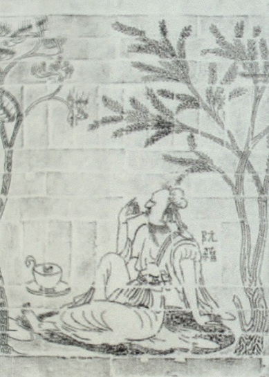 Brick impression painting named seven sages of the bamboo grove and Rong Qiji.